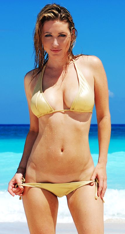 Photoshoot at the beach.